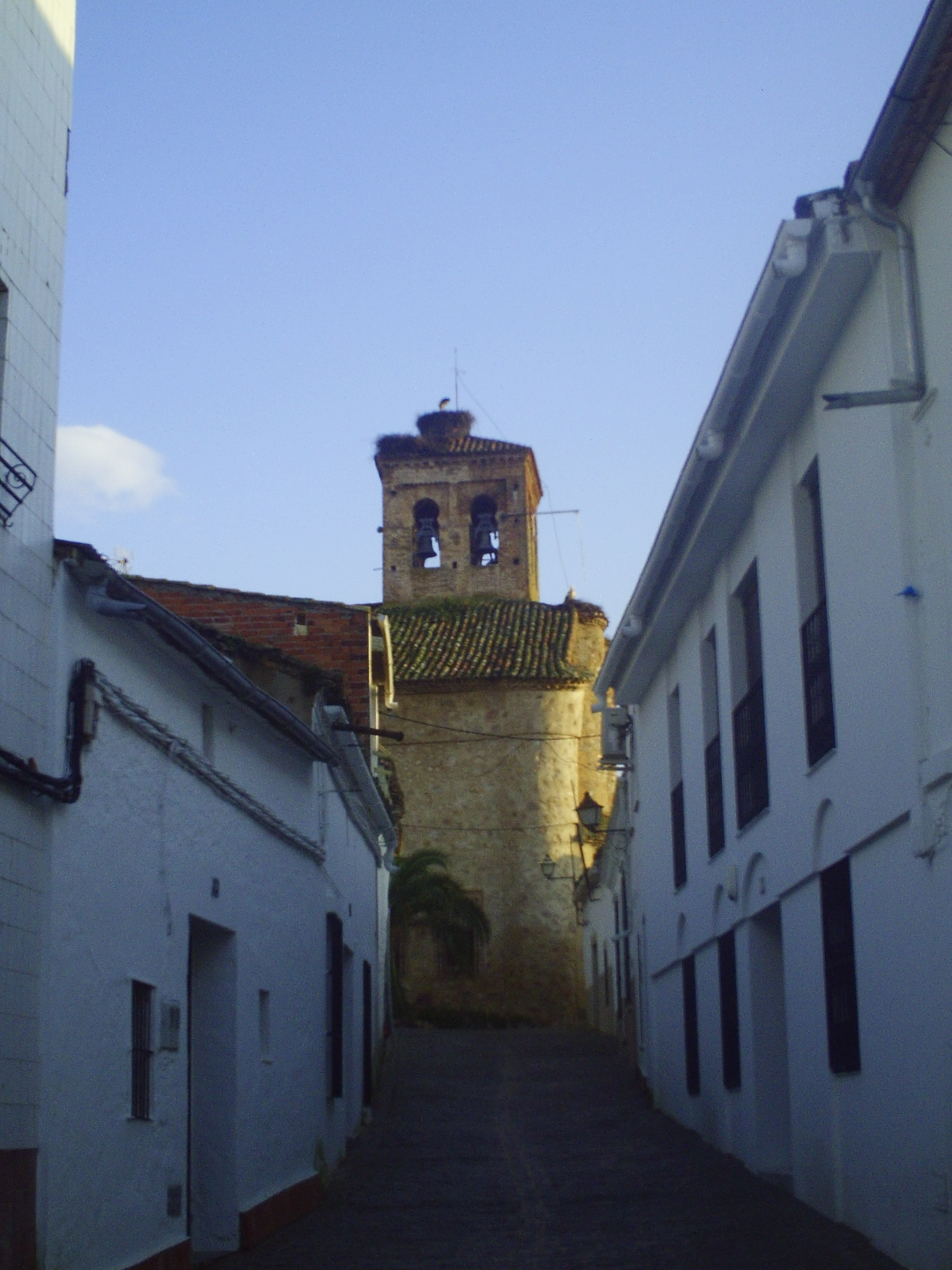 Tower of churll of Herrera del Duque.